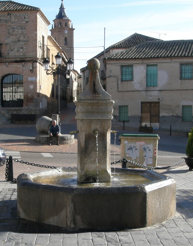 Fuente la Deliciosa